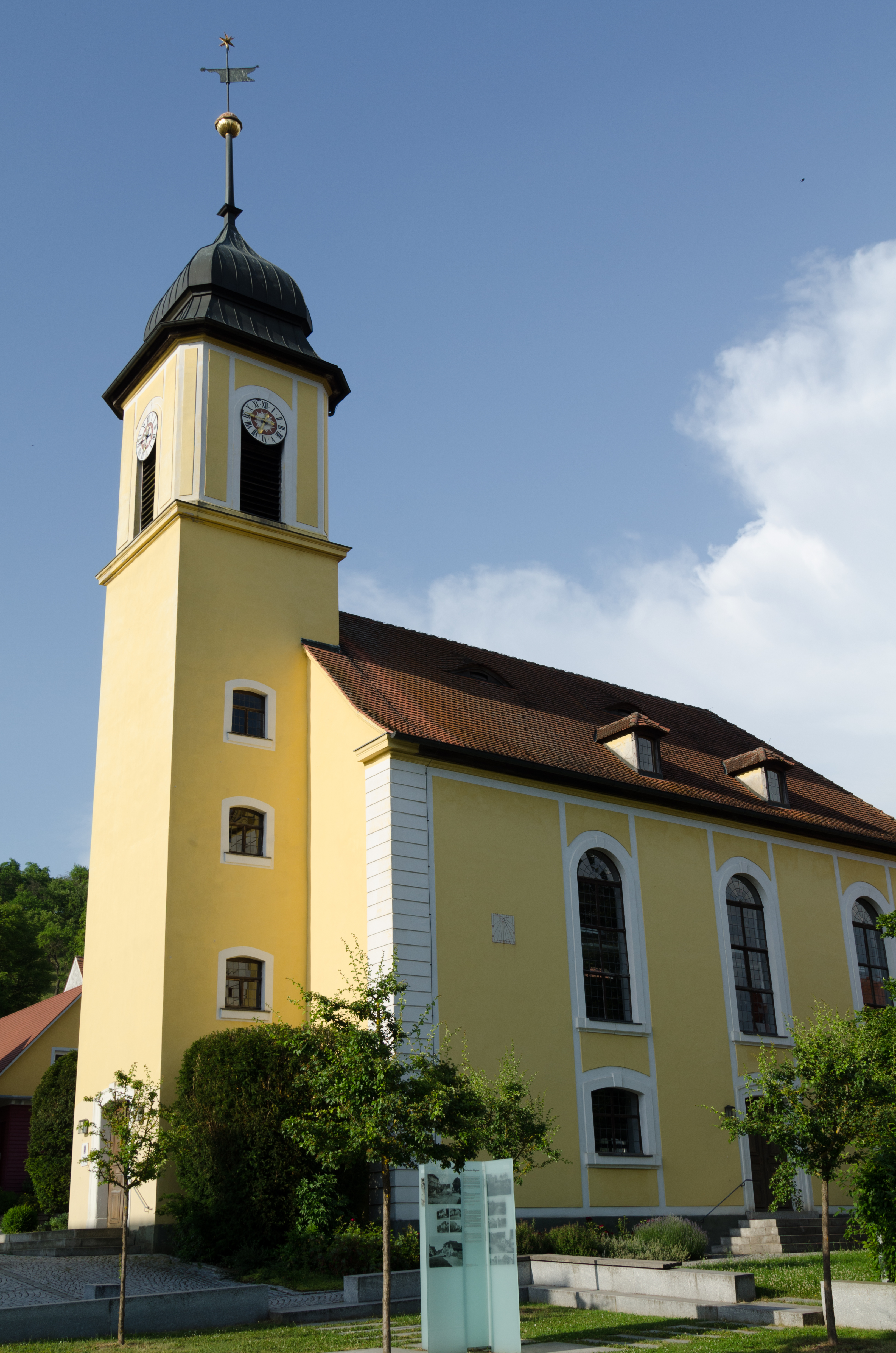 Rügland, St. Margaretha